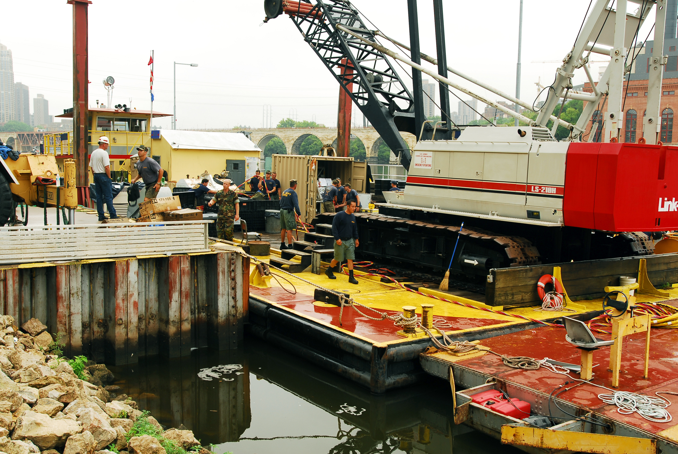 MINNEAPOLIS (Aug. 21, 2007) - Navy divers from Mobile Diving and Salvage Unit (MDSU) 2 pack their gear in preparation for their return to Naval Amphibious Base Little Creek, Virginia Beach, Va. Divers from MDSU-2 have finished aiding federal, state and local officials with the search and recovery efforts at the I-35 bridge collapse site over the Mississippi River. U.S. Navy photo by Mass Communication Specialist Seaman Joshua Adam Nuzzo (RELEASED) Link-Belt LS-218H